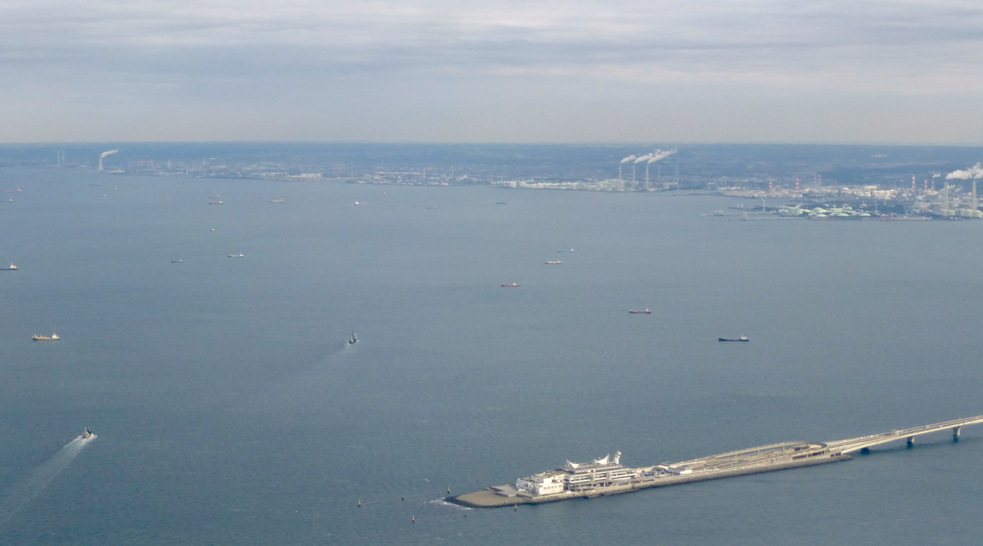 Umihotaru parking area from the sky